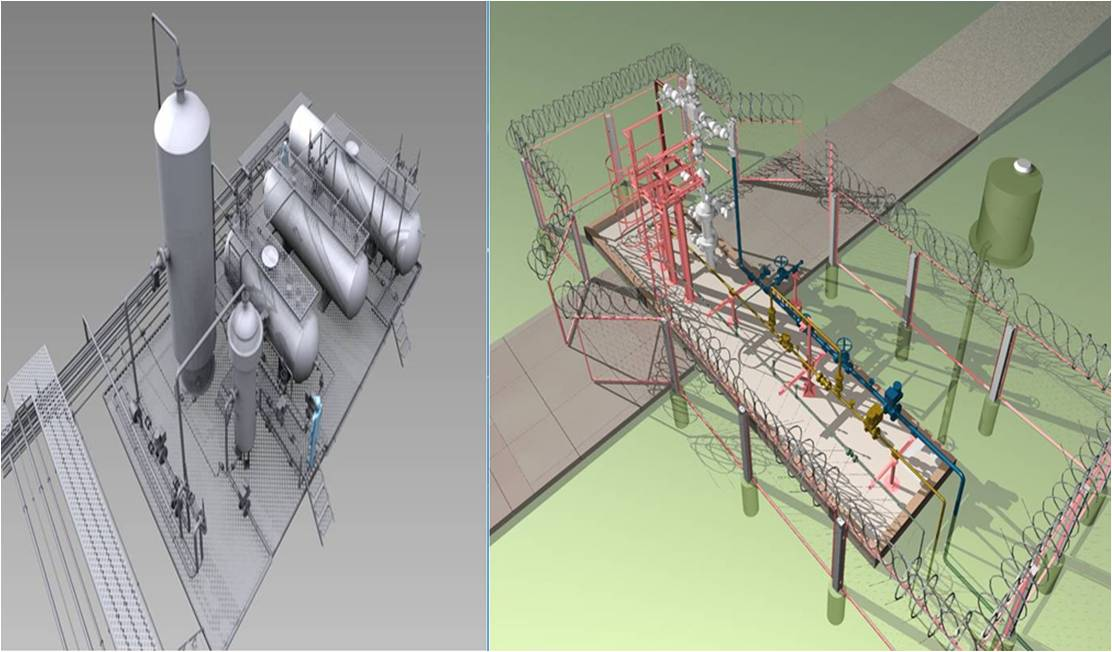 Проект